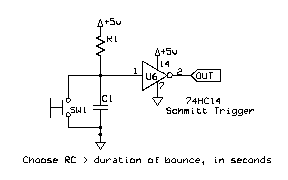 An example circuit which uses an RC circuit and a Schmitt trigger to debounce a switch.